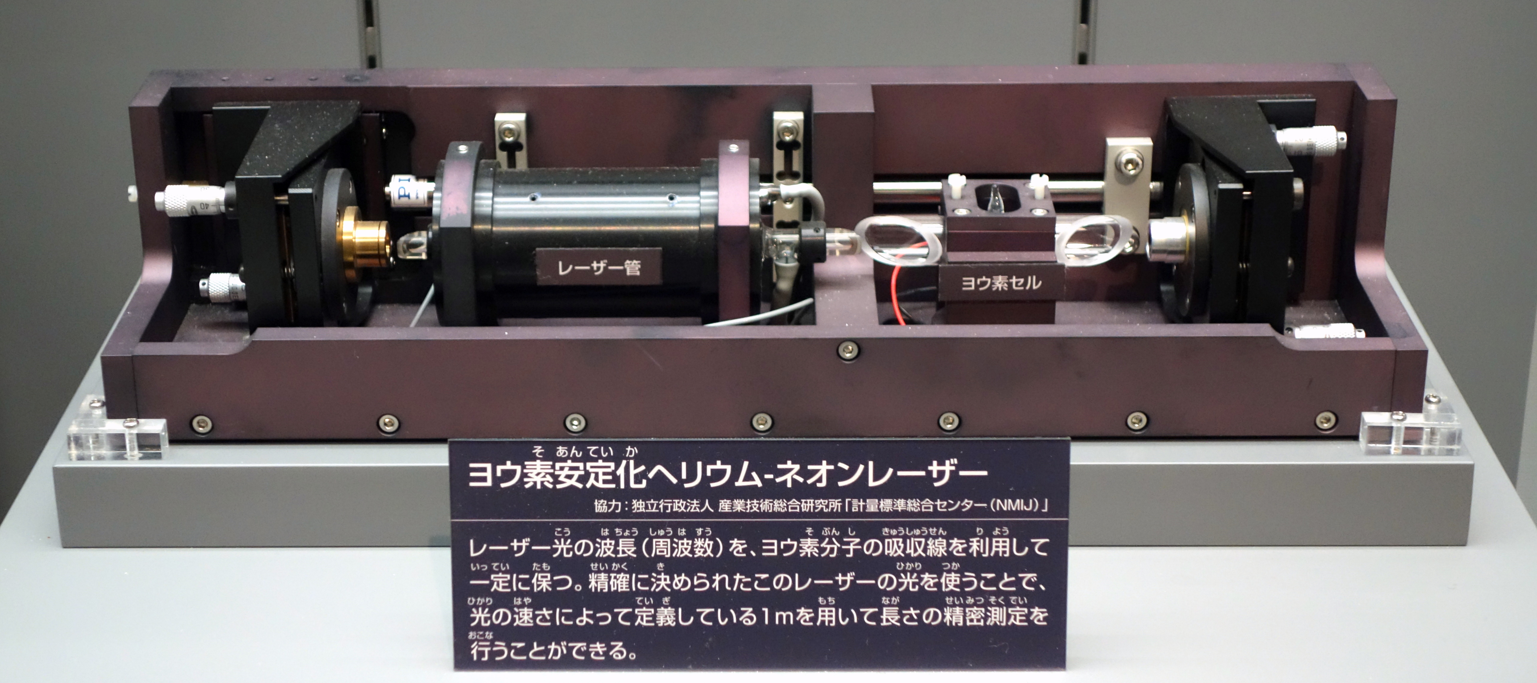 Exhibit in the National Museum of Nature and Science, Tokyo, Japan.